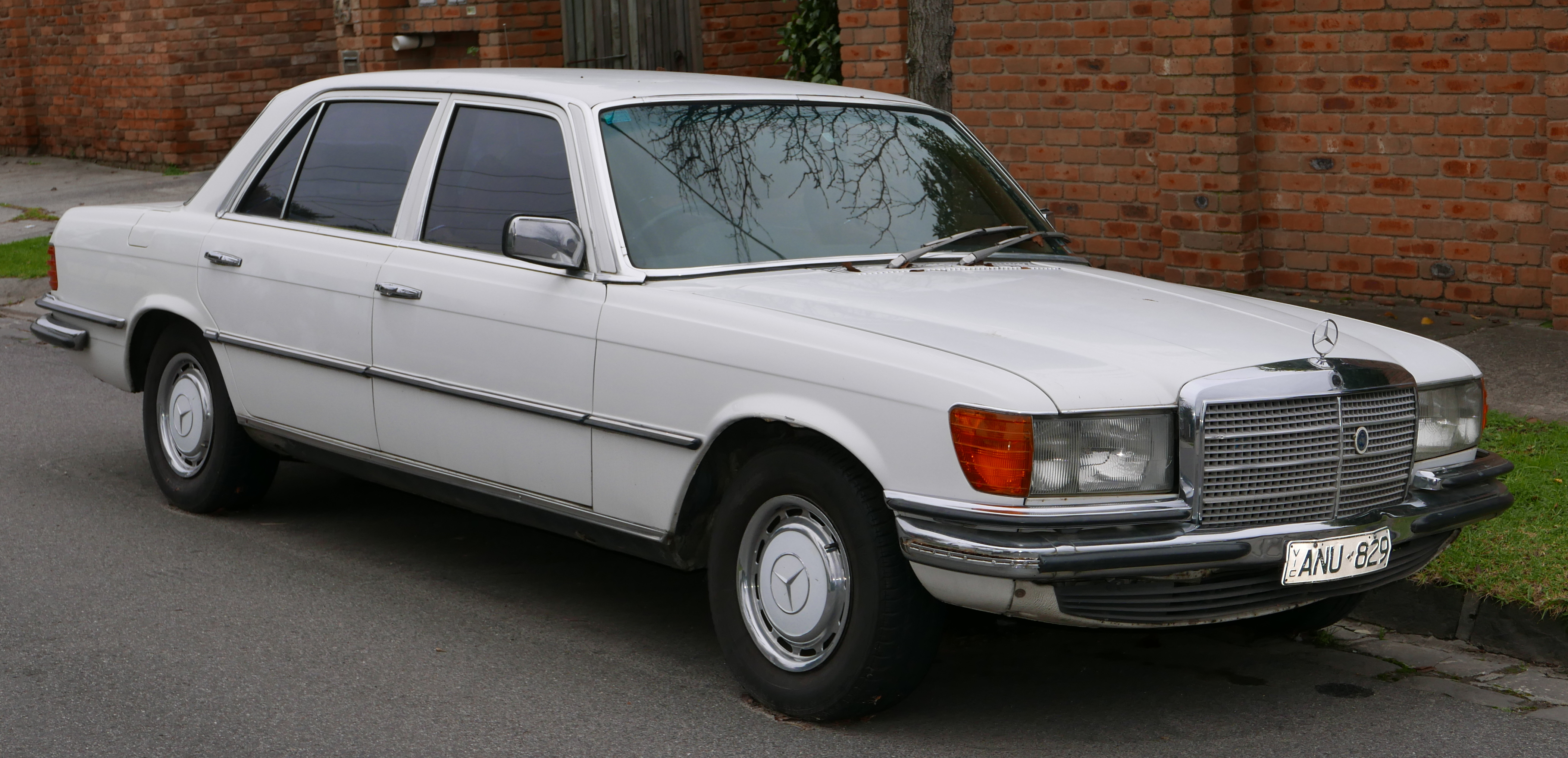 1979 Mercedes-Benz 280 SEL (V 116) sedan. Photographed in Kew, Victoria, Australia. Vehicle registration enquiry results Jurisdiction Victoria Registration ANU829 Chassis code Not available Engine code 11098522034340 Compliance date Not available Year of manufacture 1979